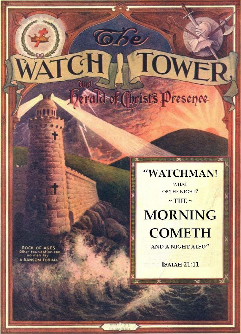 Special edition The Watch Tower 1 January 1912